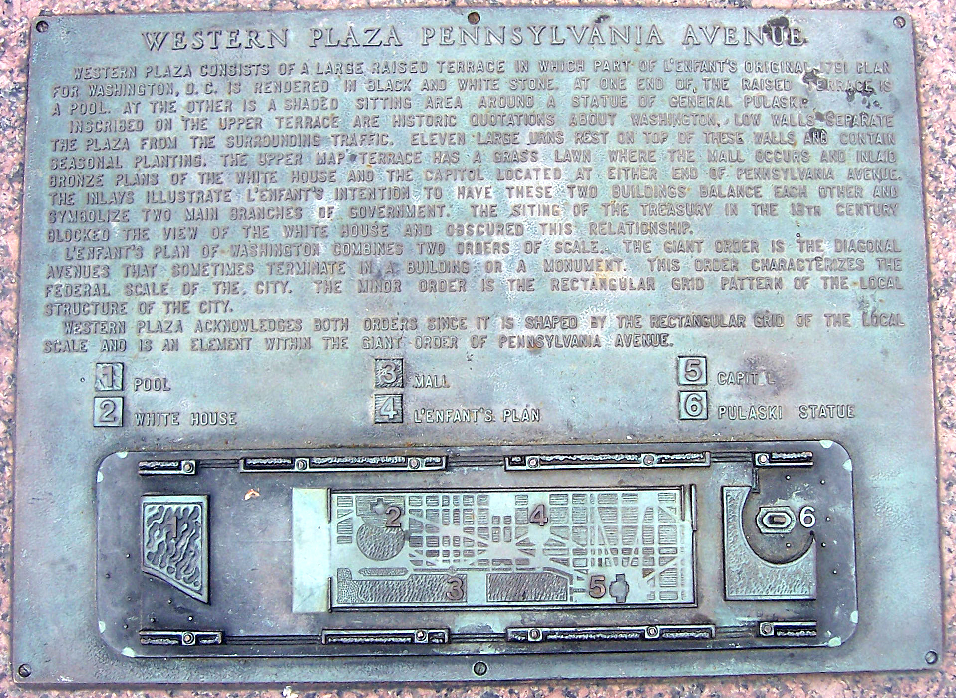 The plaque at the end of Freedom plaza, Washington D.C., which still reads "Western Plaza", its original name.